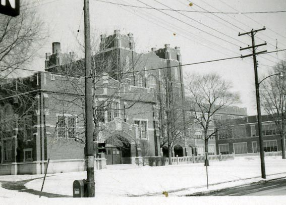 This image was produced by the Auditor's Office in Lucas County, Ohio for tax assessment purposes. Associated dates are approximate. Descriptive terms related to this photograph include: Libbey High School (Toledo, Ohio) | 1250 Western Avenue (Toledo, Ohio) | School buildings | Fenneberg's Addition (Toledo, Ohio) | South Toledo Area (Toledo, Ohio) | Lost architecture | Gothic Revival Style